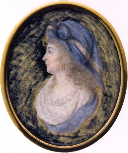 Portrait of Charlotte de Rohan (1767-1841), secret wife of the Duke of Enghien